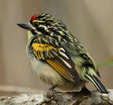 Red-fronted Tinkerbird at Ntshondwe Camp, Ithala Game Reserve, KwaZulu-Natal, South Africa